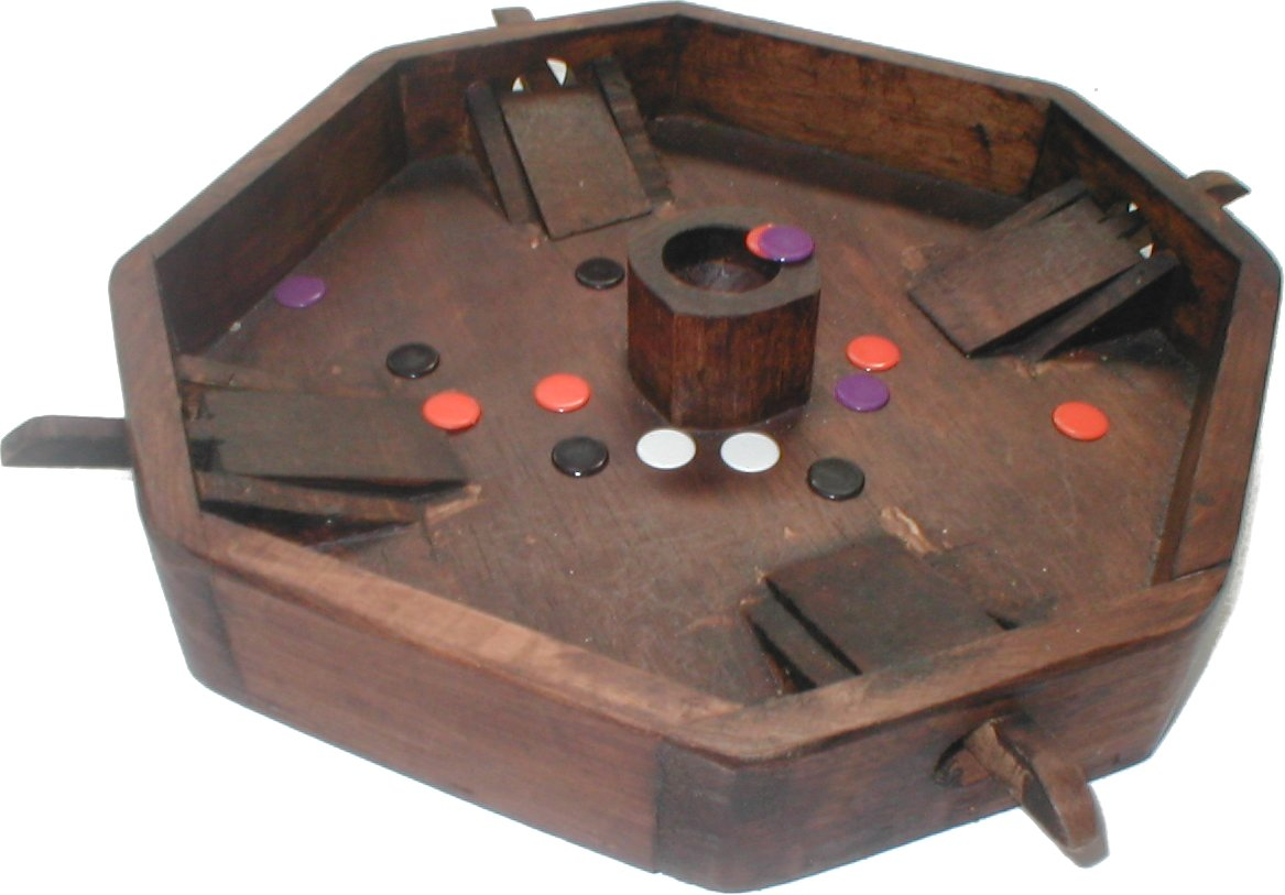 The "flea game", informal version of tiddlywinks.